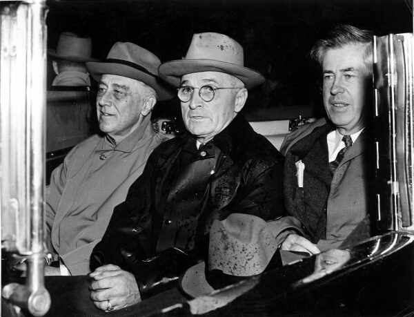 President Franklin D. Roosevelt, Vice-President-elect Harry S. Truman, and Vice-President Henry Wallace in a car. President Roosevelt is returning to the Capitol from Union Station during a downpour of rain.